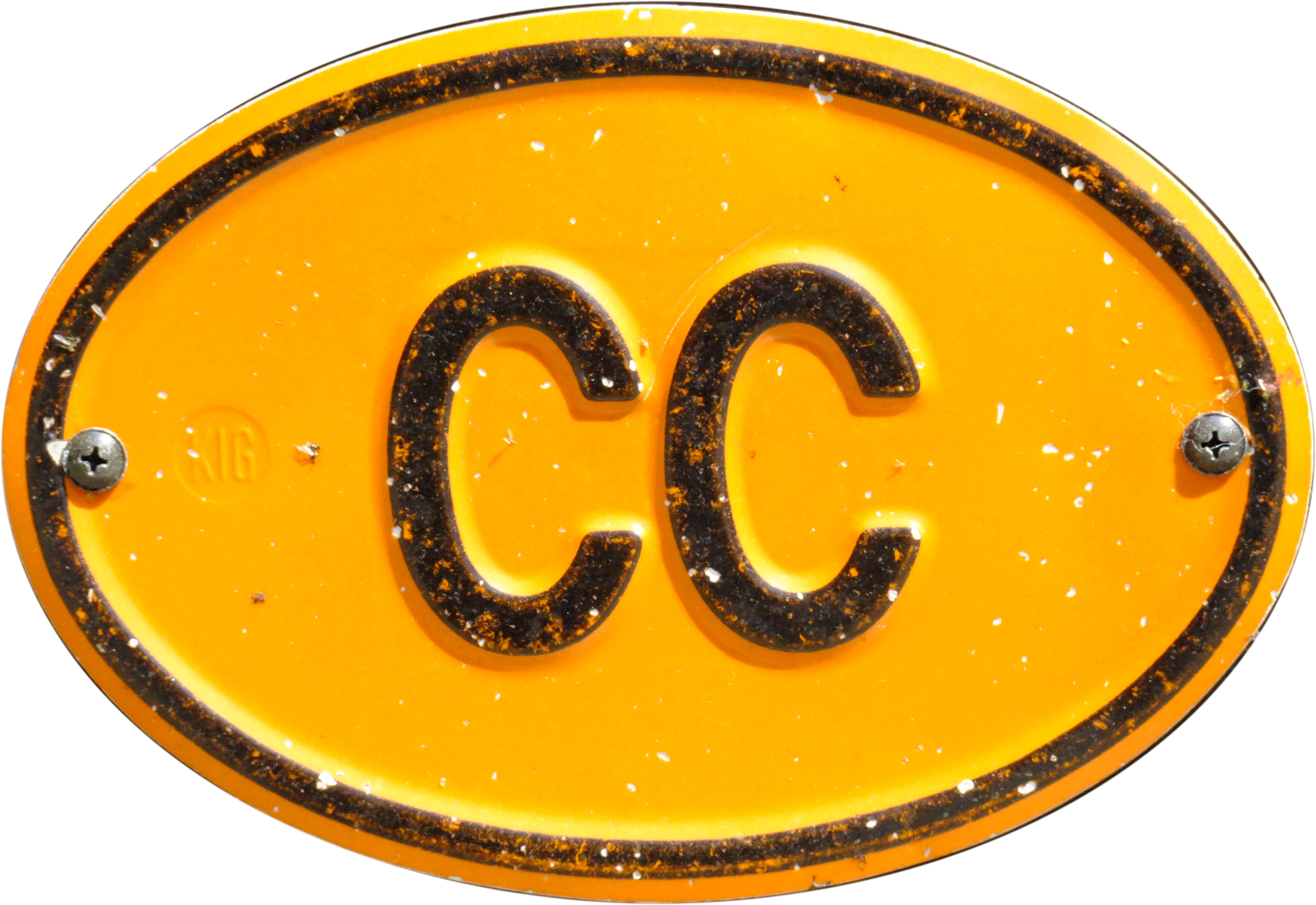 Corps Consulaire sign